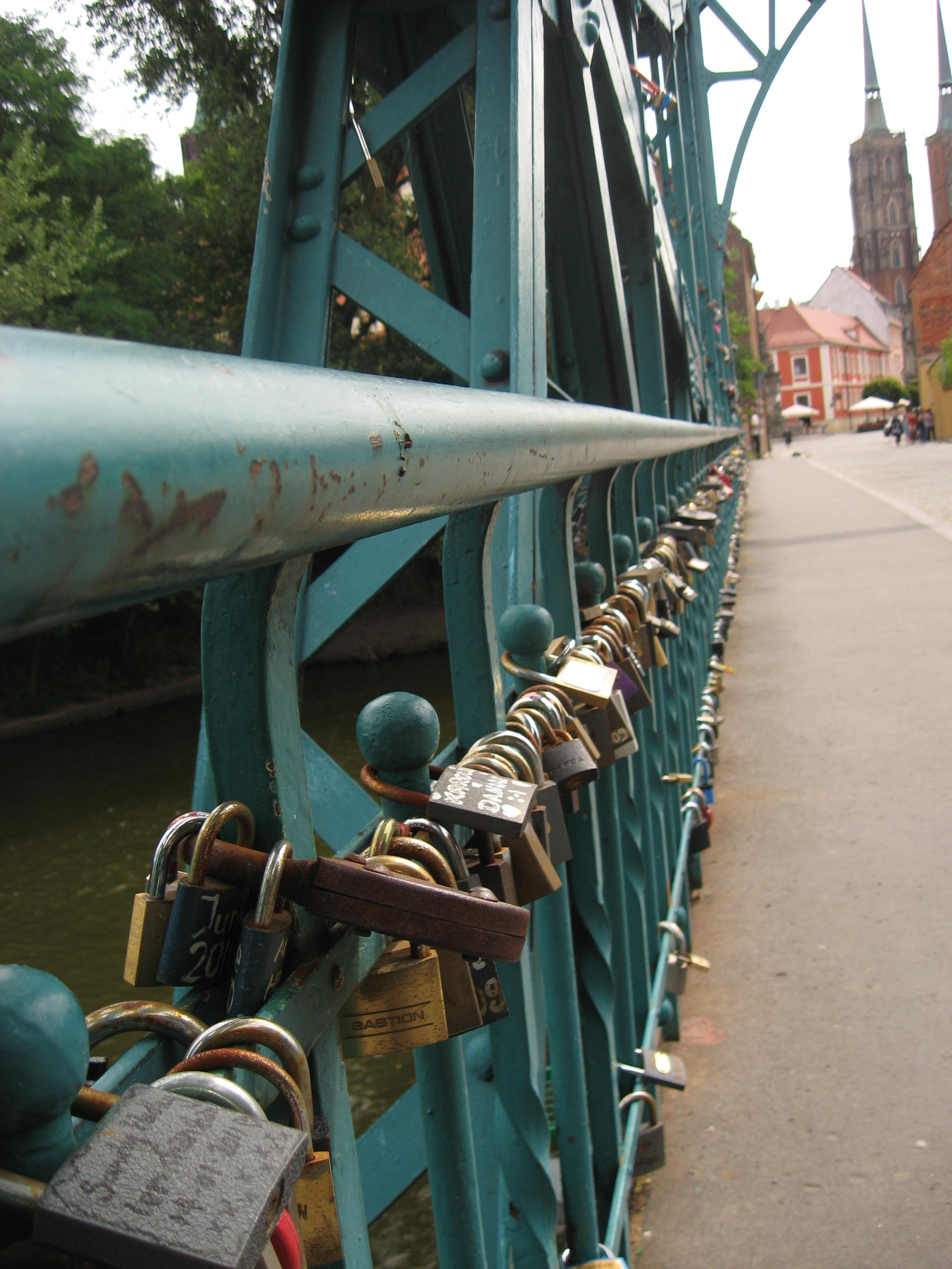 Padlocks on Tumski Bridge in Wrocław